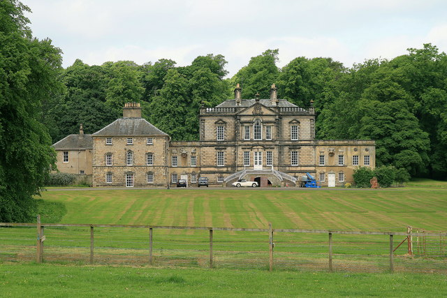 Drum, Gilmerton A mansion house built by William Adam for Lord Somerville between the years 1726-34. The pavilion to the west incorporates part of earlier house built in 1584. Another pavilion to the east was intended but not built. The house is set in landscaped grounds originally laid out by William Adam.